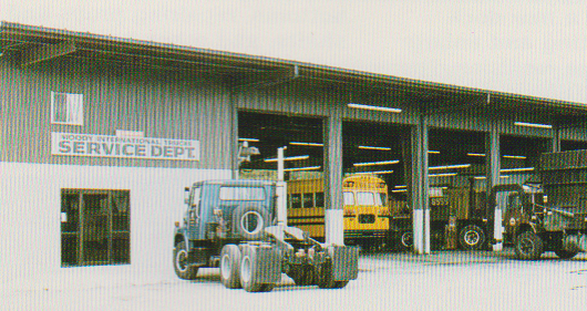 Moody Truck Center scanned from my own photograph in 1980s.